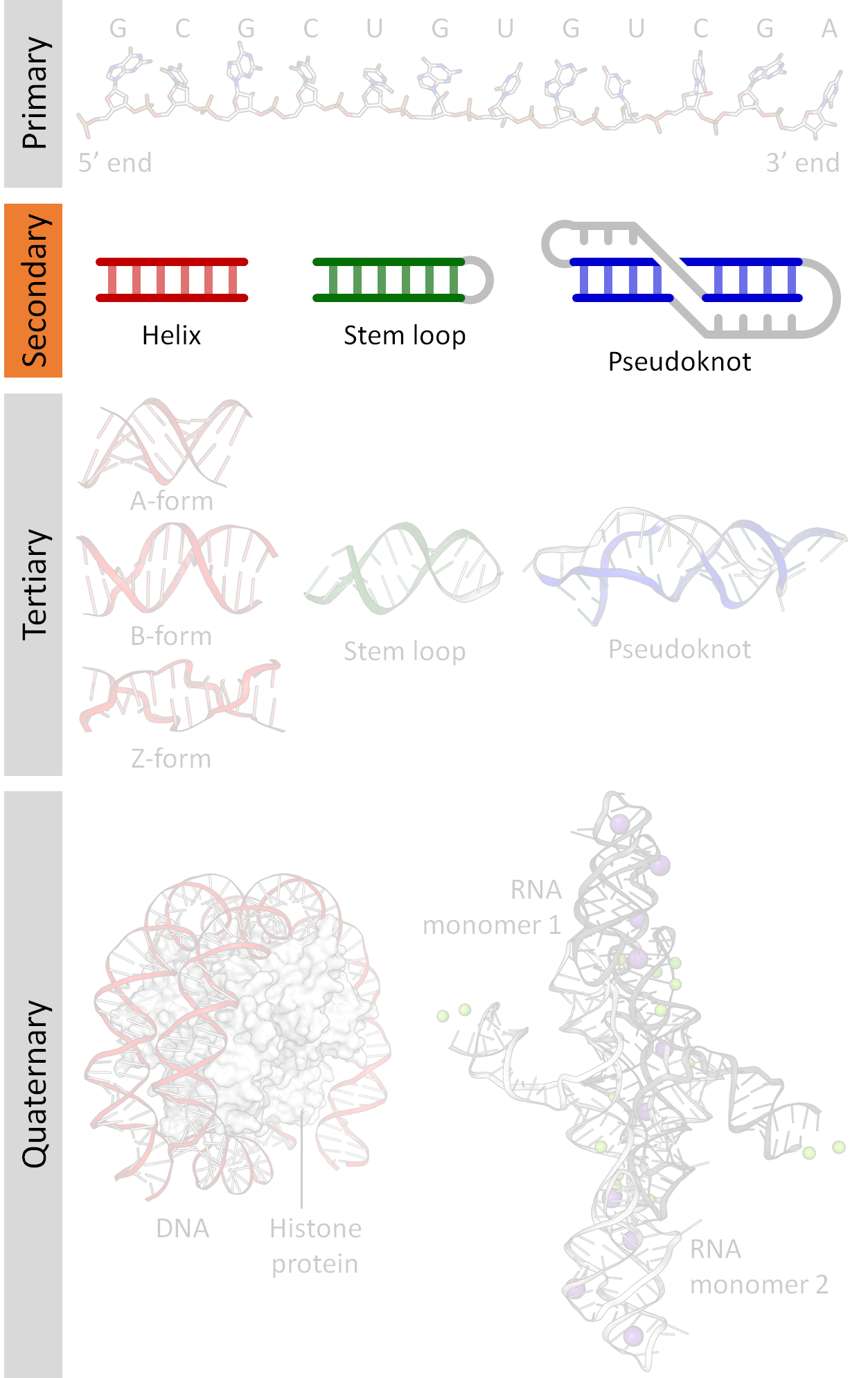 Summary of nucleic acid structure (primary, secondary, tertiary, and quaternary) using DNA helices and examples from the VS ribozyme and telomerase and nucleosome. (PDB: ADNA, 1BNA, 4OCB, 4R4V, 1YMO, 1EQZ​)